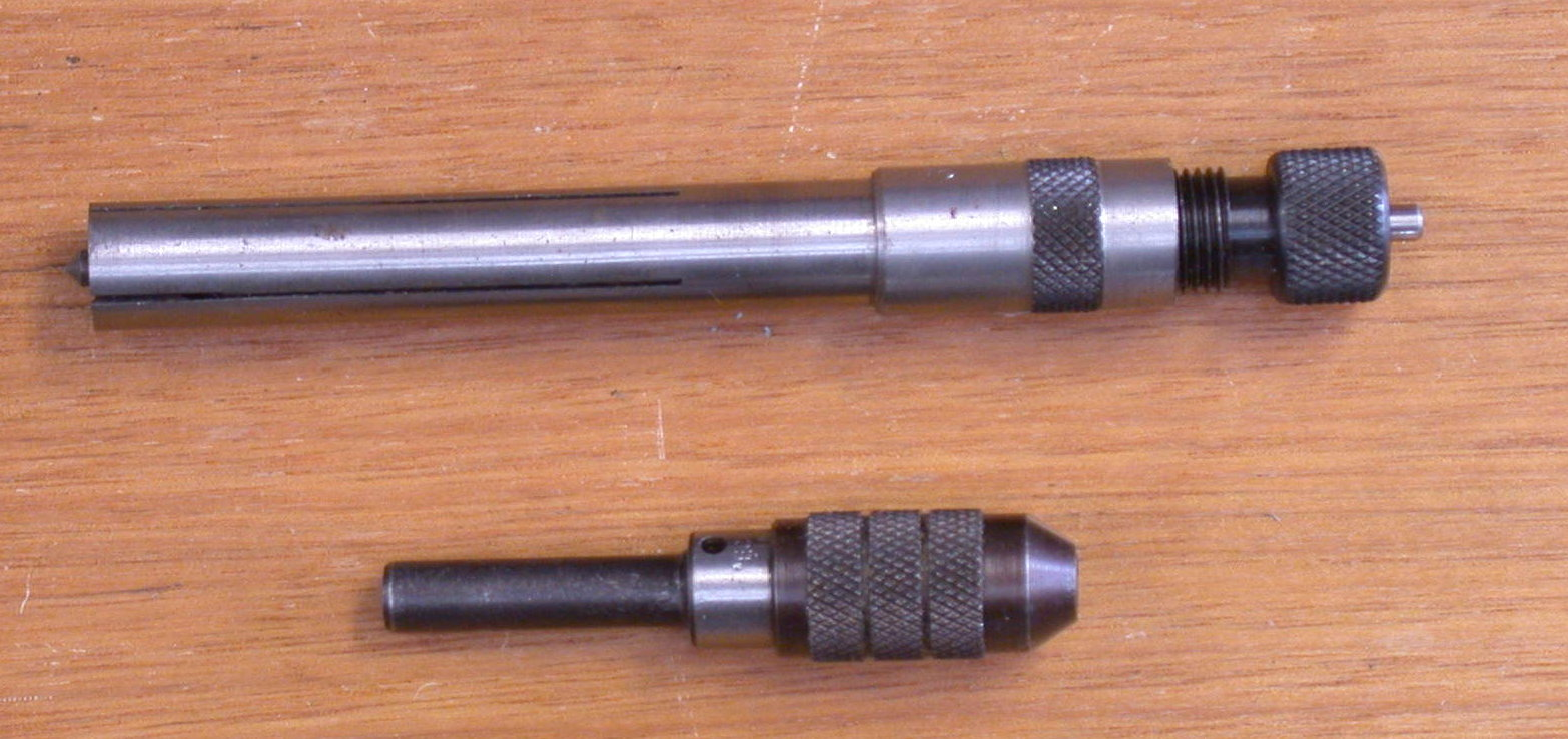 Examples of knurling, as produced by a knurling tool